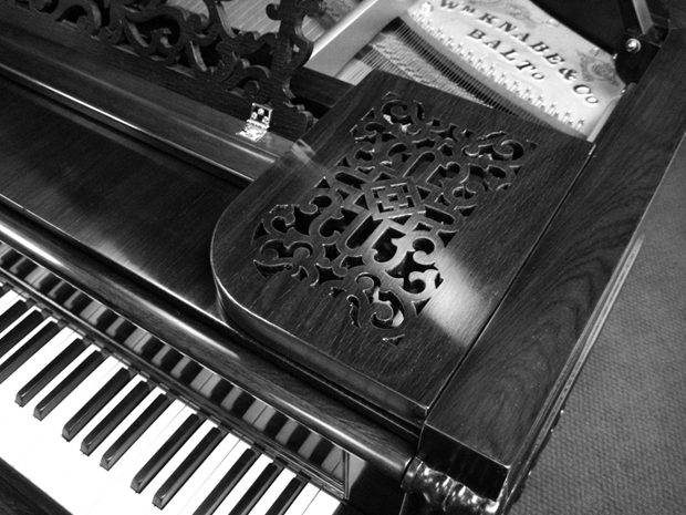 The detailed music rack of a Knabe grand piano, made in around 1884.